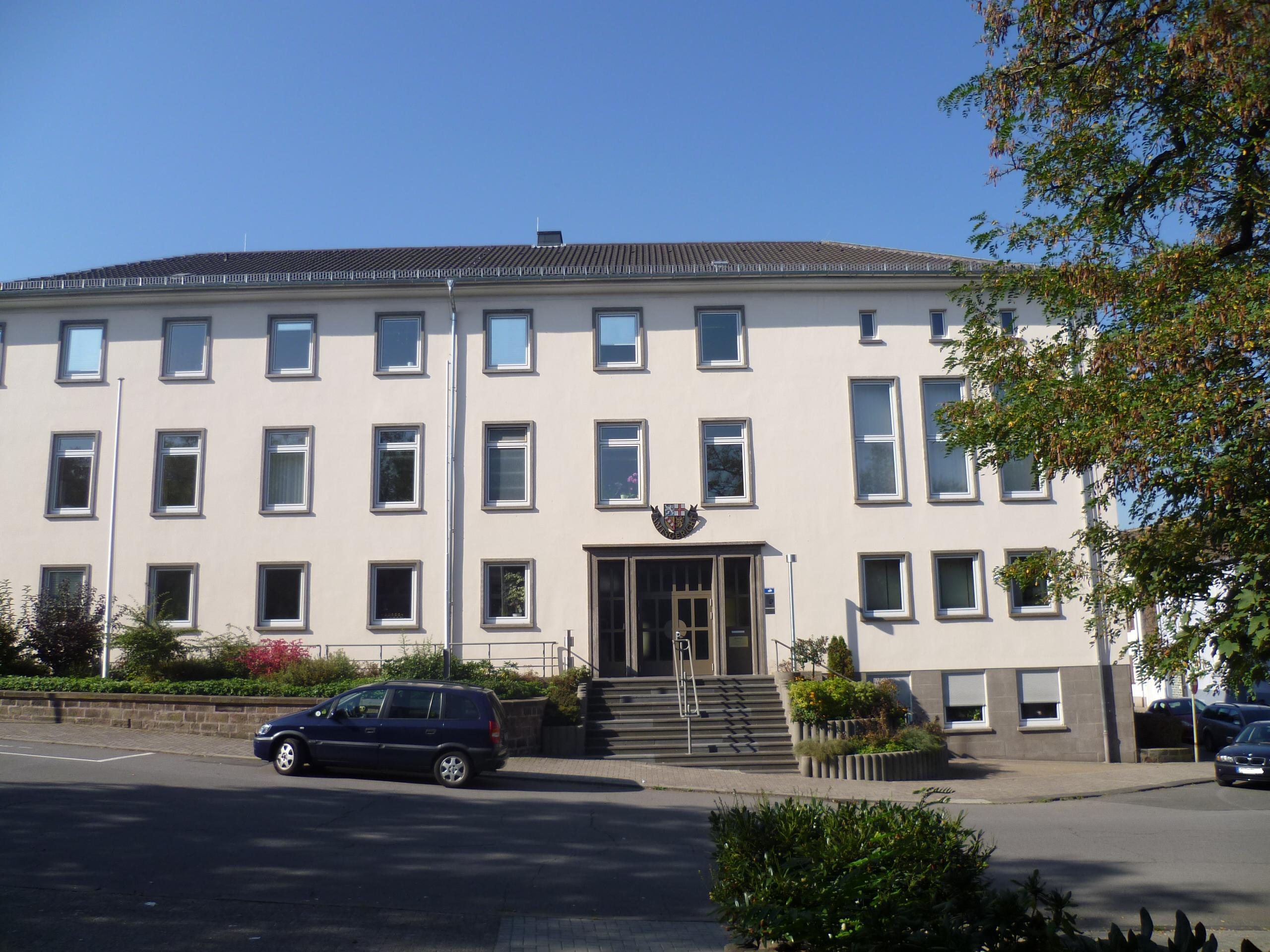 Amtsgericht Neunkirchen (Saar)